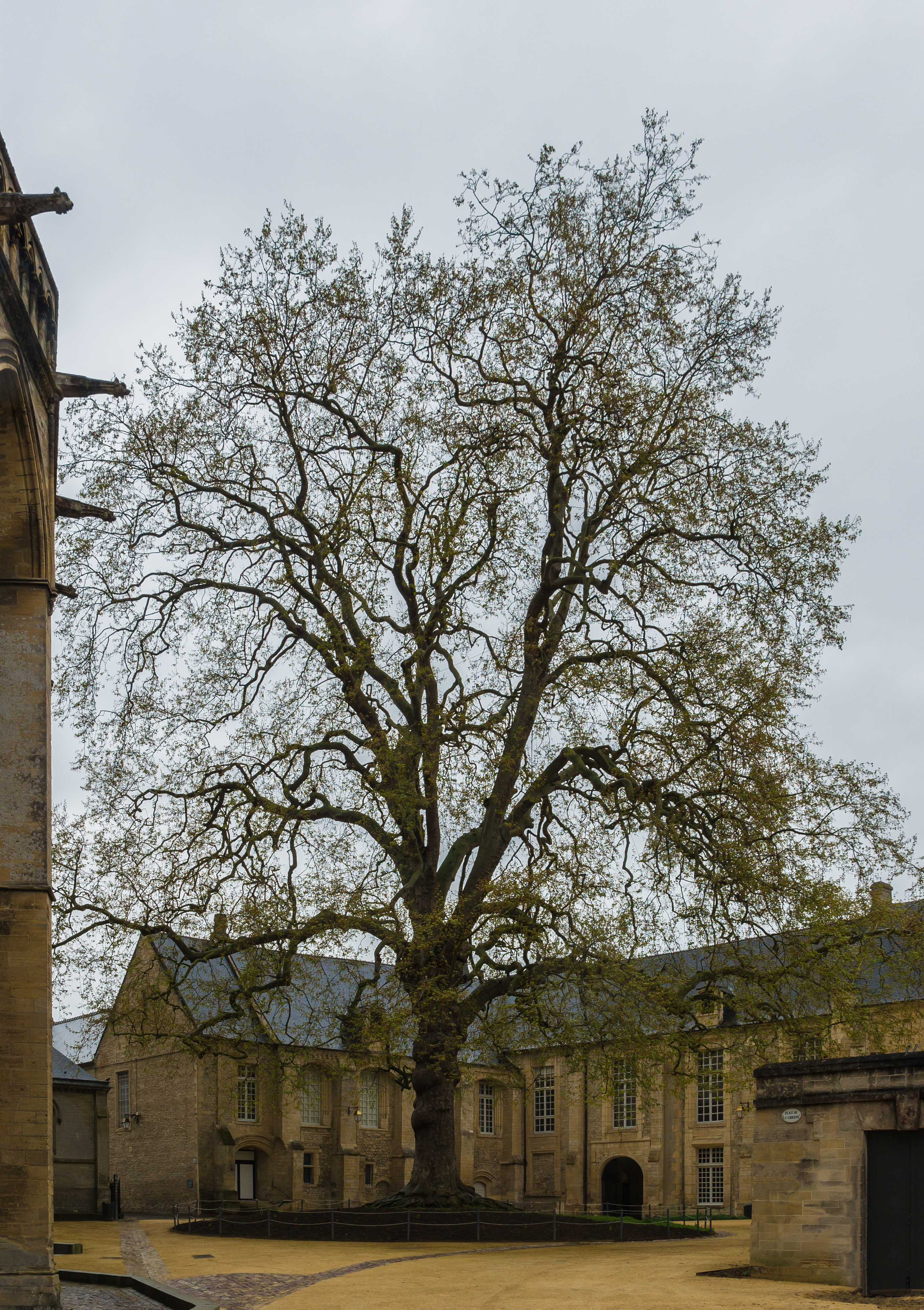 "Freedom Tree", 1797, Bayeux, Calvados, Normandy, France